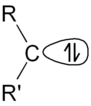 Description: General structure of singlet carbenes. Source = Selfmade. Date = 3 June 2006. Made with ChemDraw.